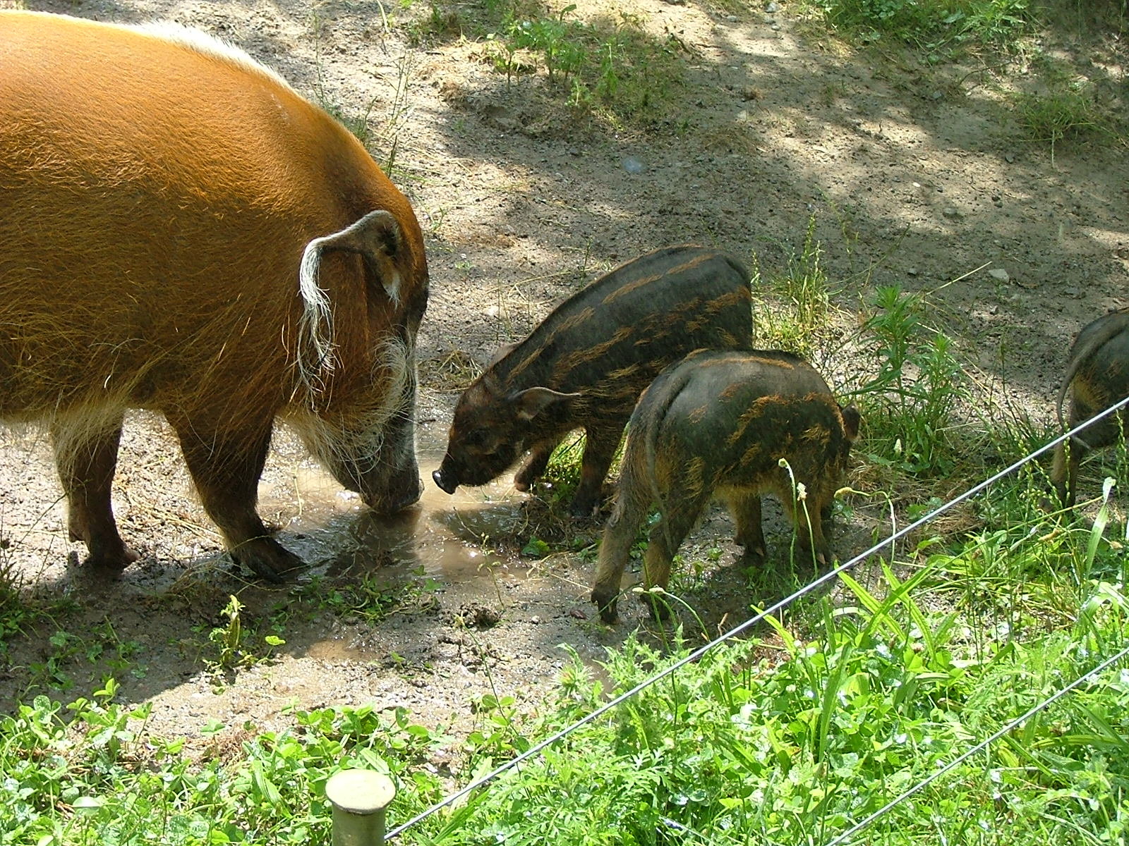 Red River Hog and piglets at the Toronto Zoo. Taken by myself, July 2006. Free for use, though e-mails regarding such are appreciated.